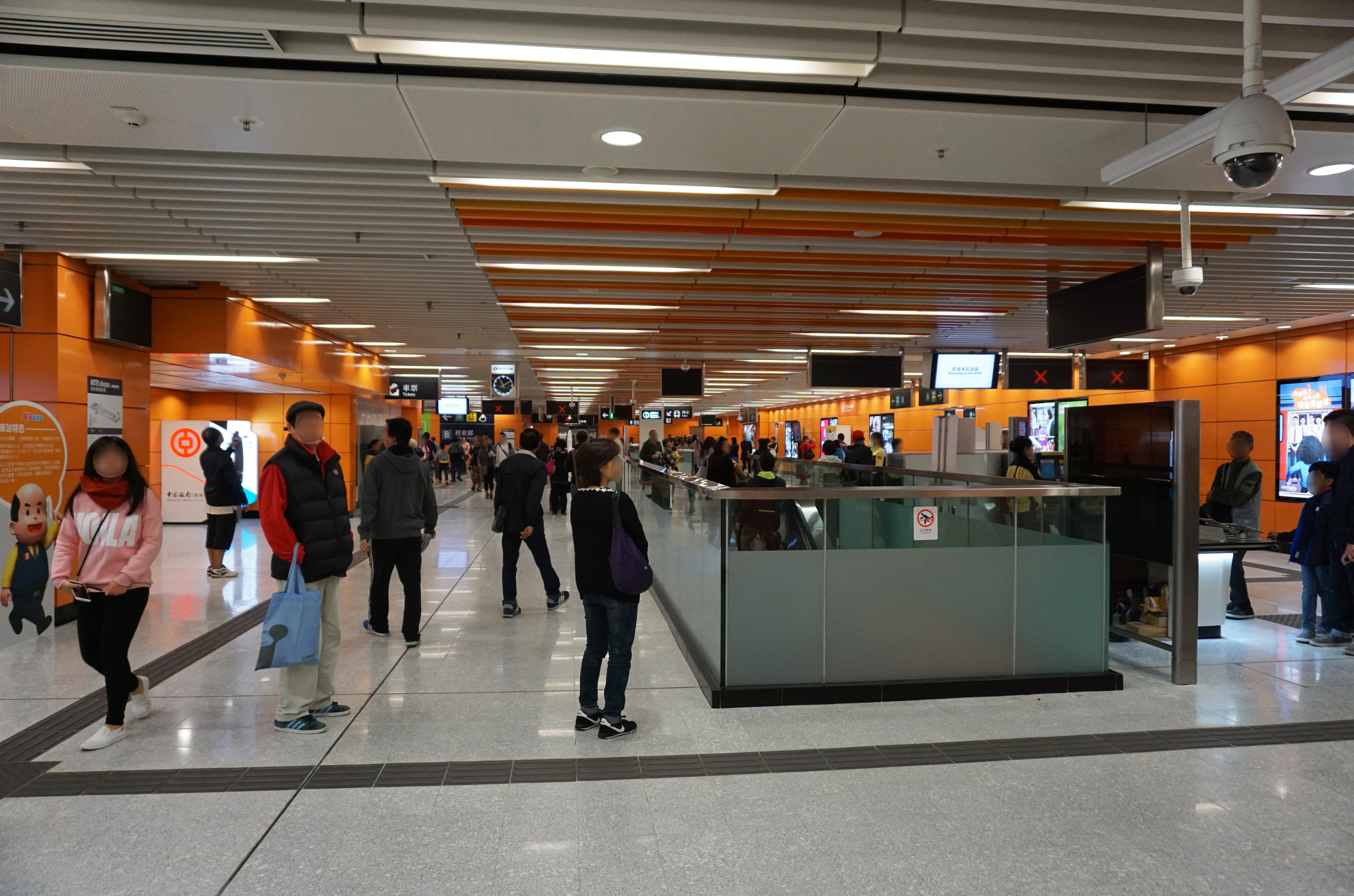 Lei Tung Station in Ap Lei Chau, Hong Kong.